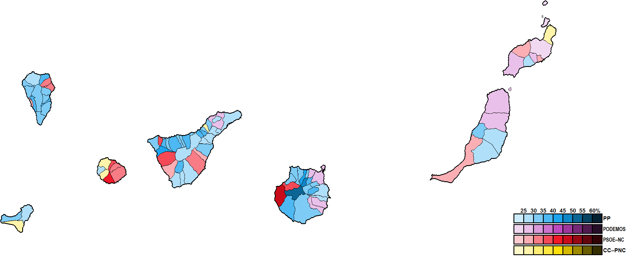 Most-voted party in Canary Islands municipalities, showing vote share obtained, in the Spanish general election, 2015.